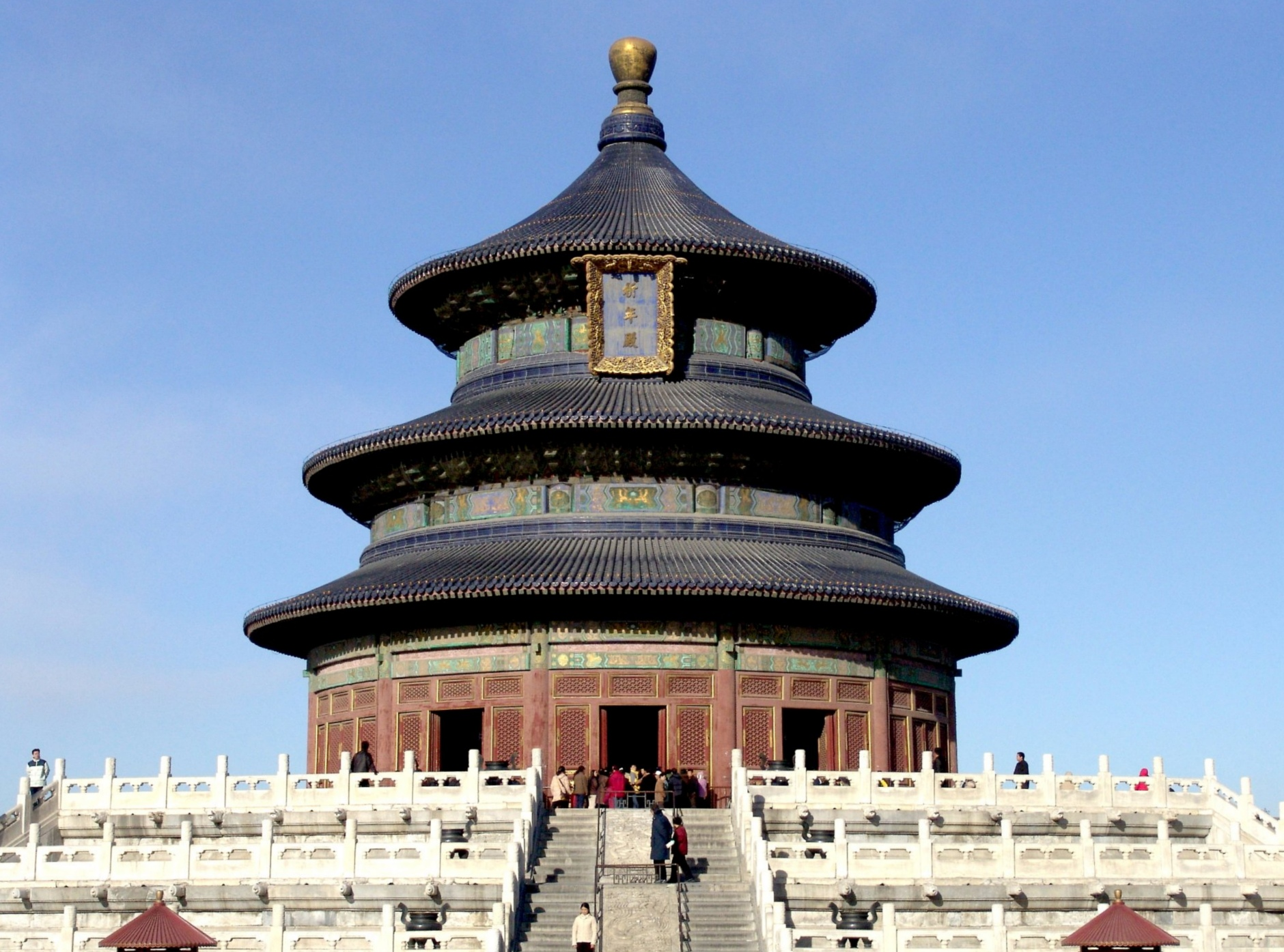 The Hall of Prayer for Good Harvest, Temple of Heaven, Beijing